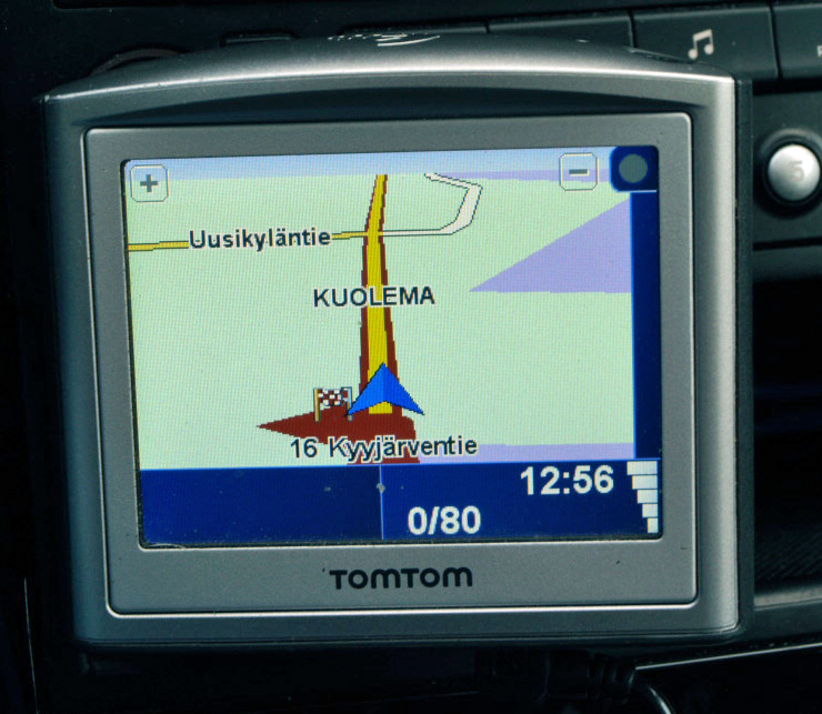 Kuolema ("Death") village in Alajärvi, Finland, is not marked on road signs, but the name is visible on GPS navigator while driving along road 16.